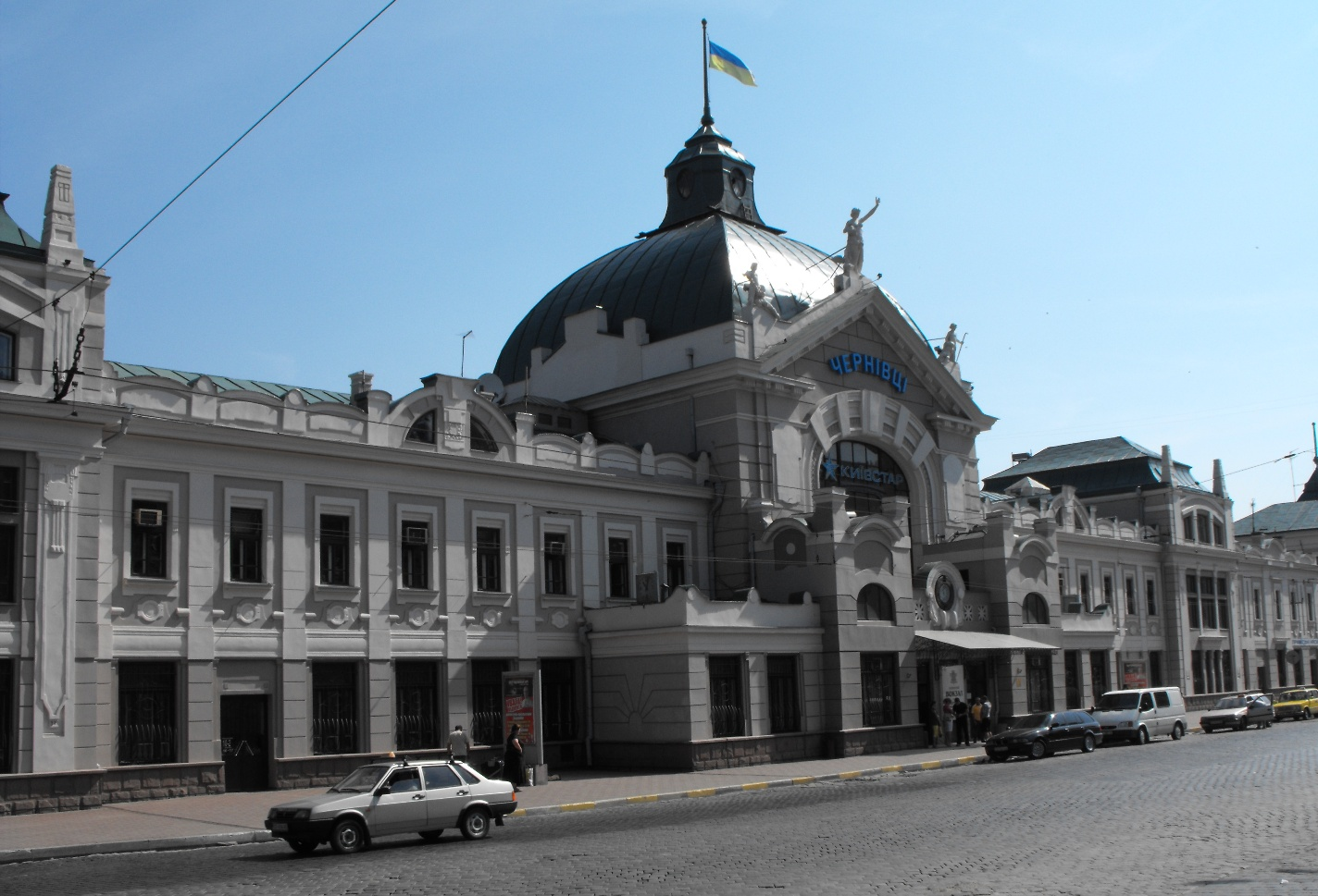 Train Station of Chernivtsi